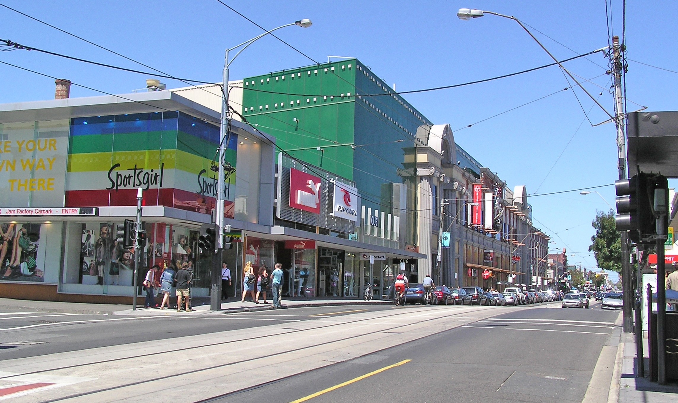 Chapel Street in South Yarra